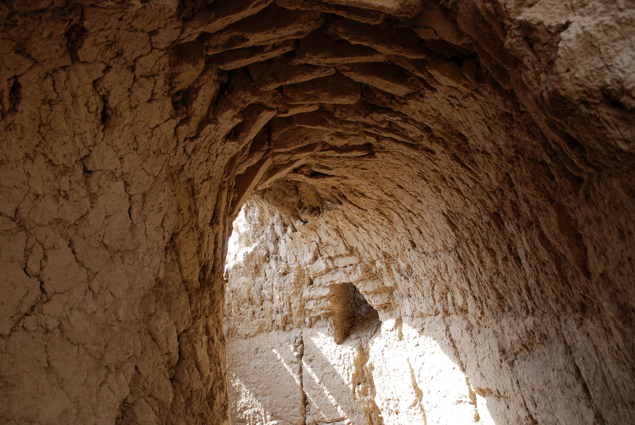 Jarkutan, Sughd province, Chilhujra, ramp